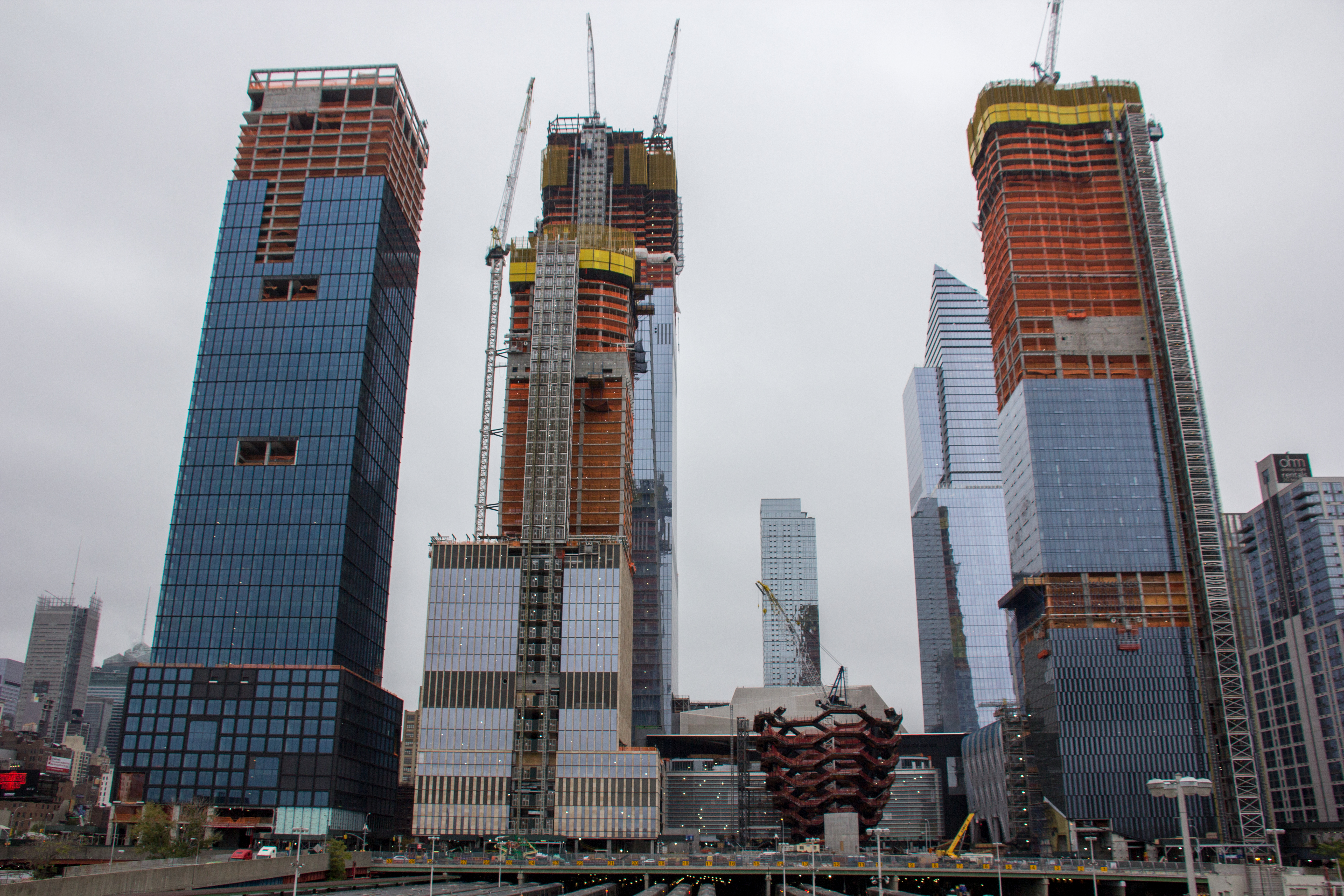 At New York City, USA